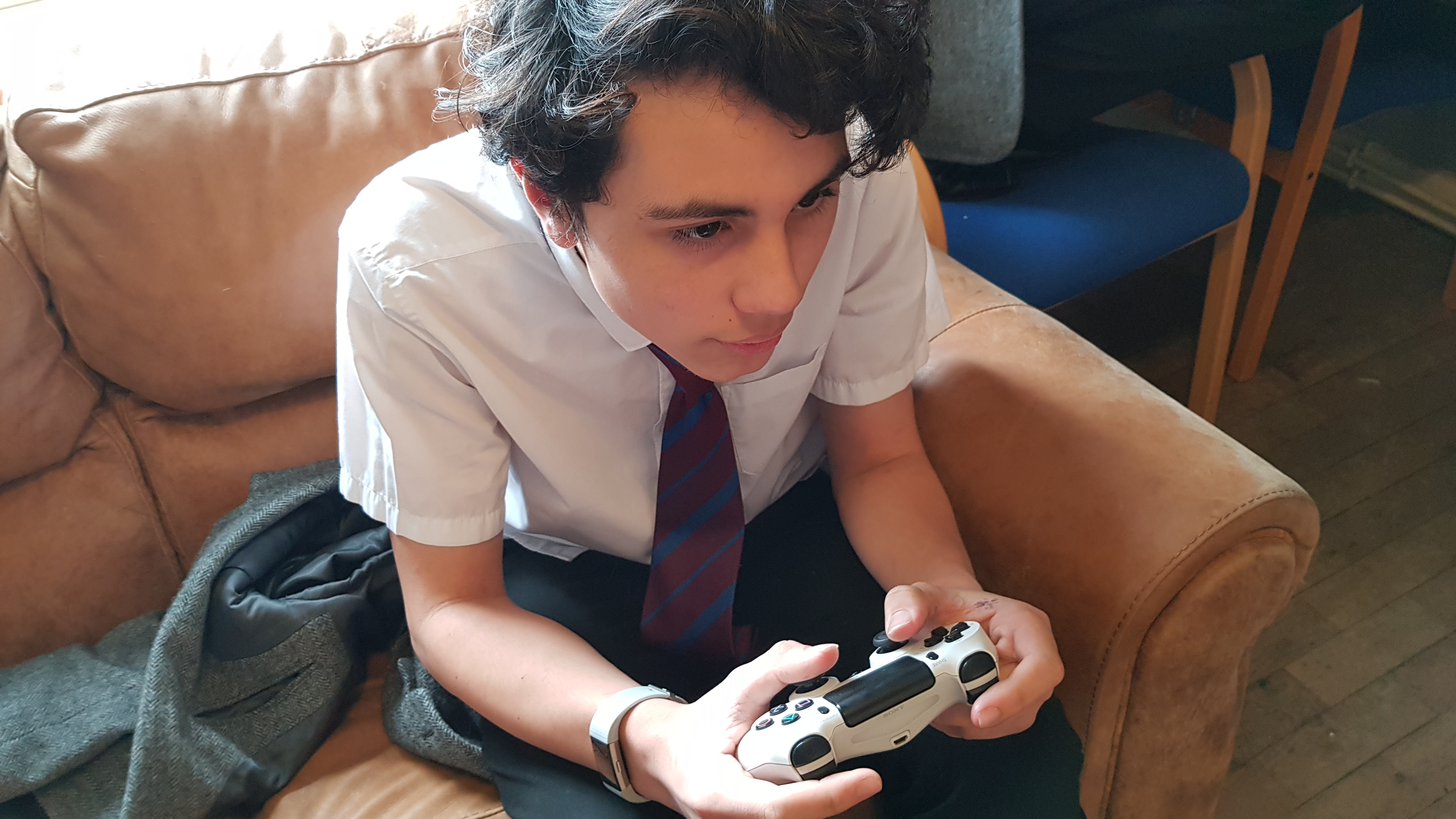 A student gaming